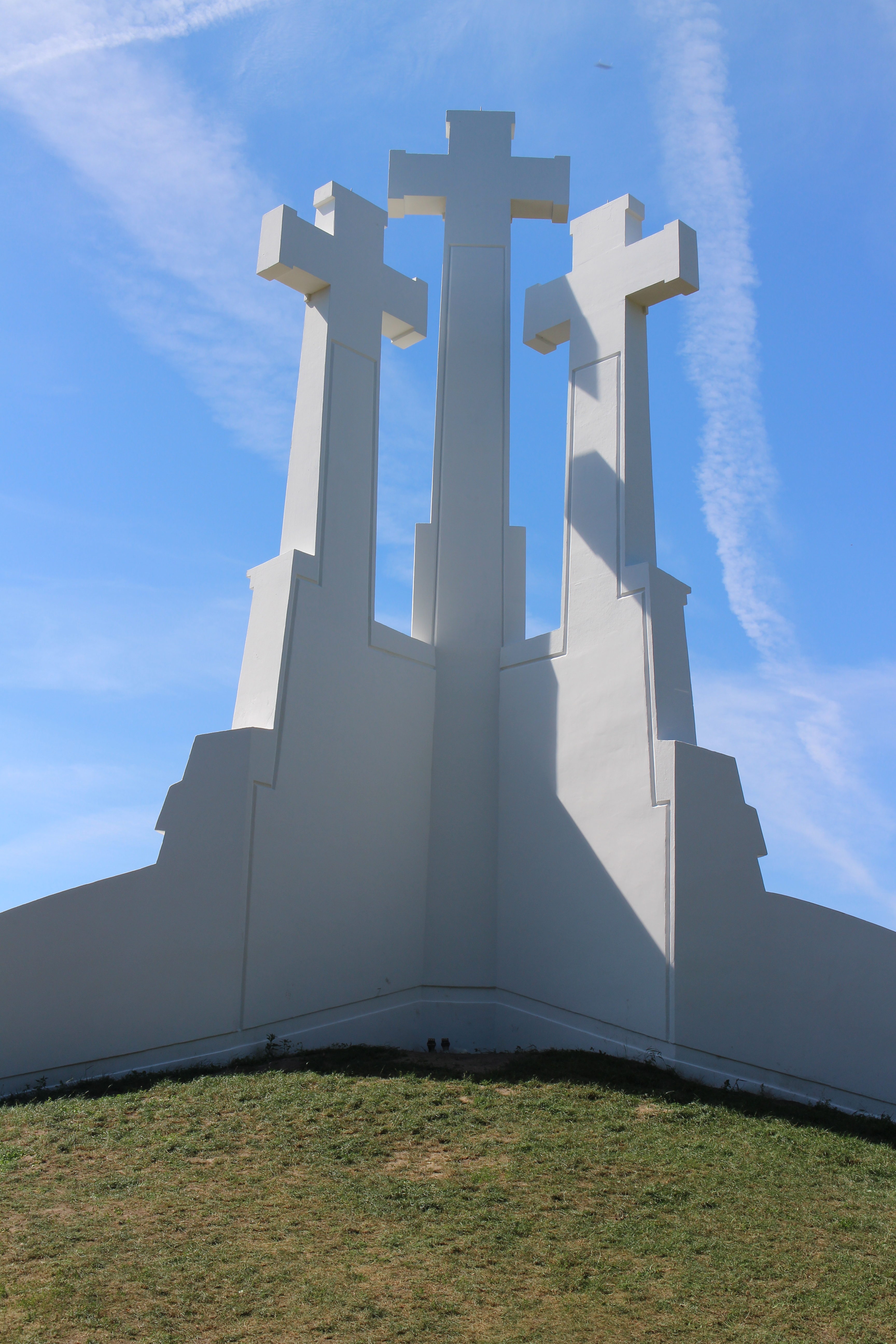 Three Crosses monument, Vilnius